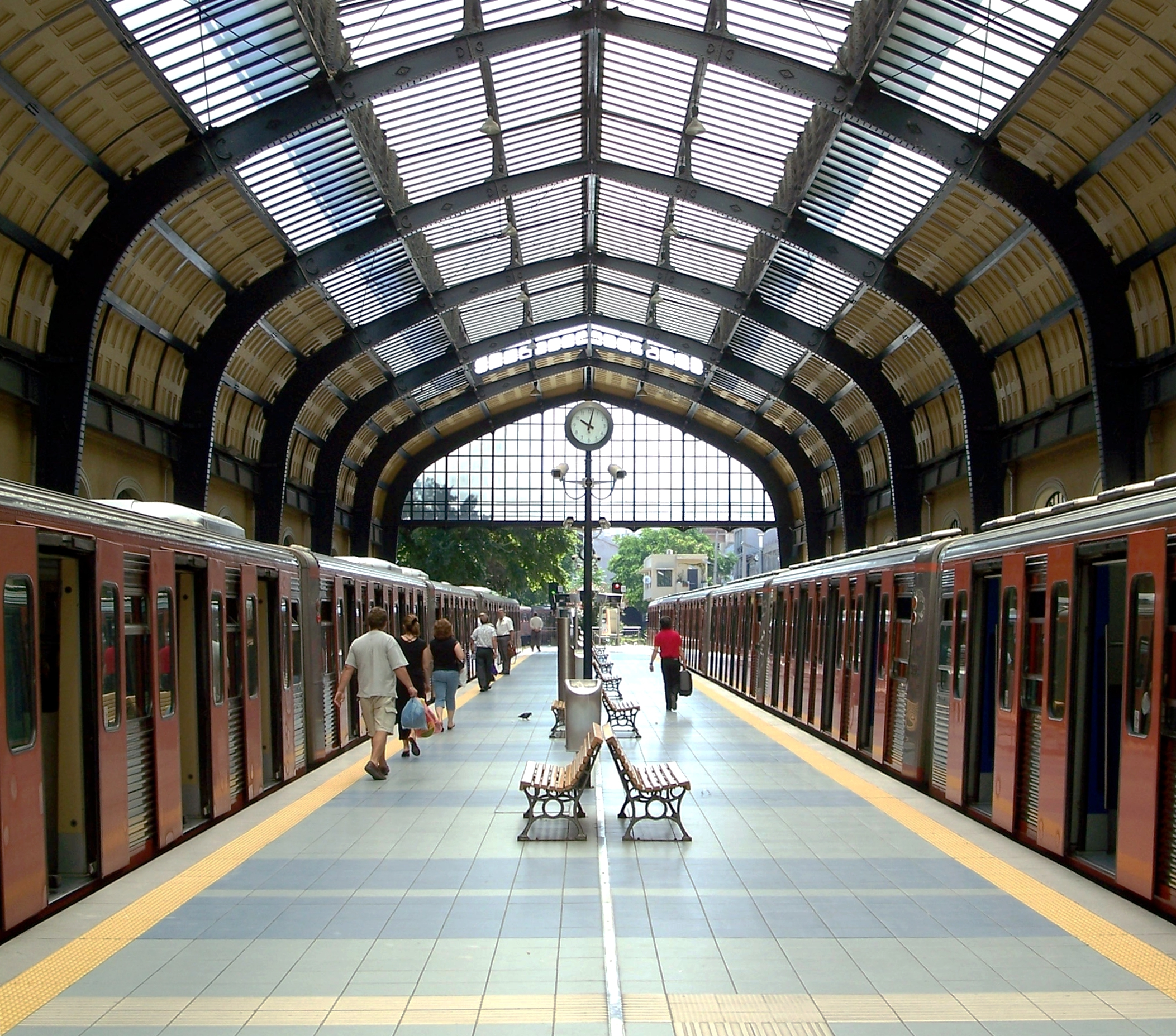 The terminal of the Athens-Piraeus Electric Railway (Metro system green line) at Piraeus.